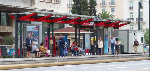 Syntagma terminal of the Athens tram system.